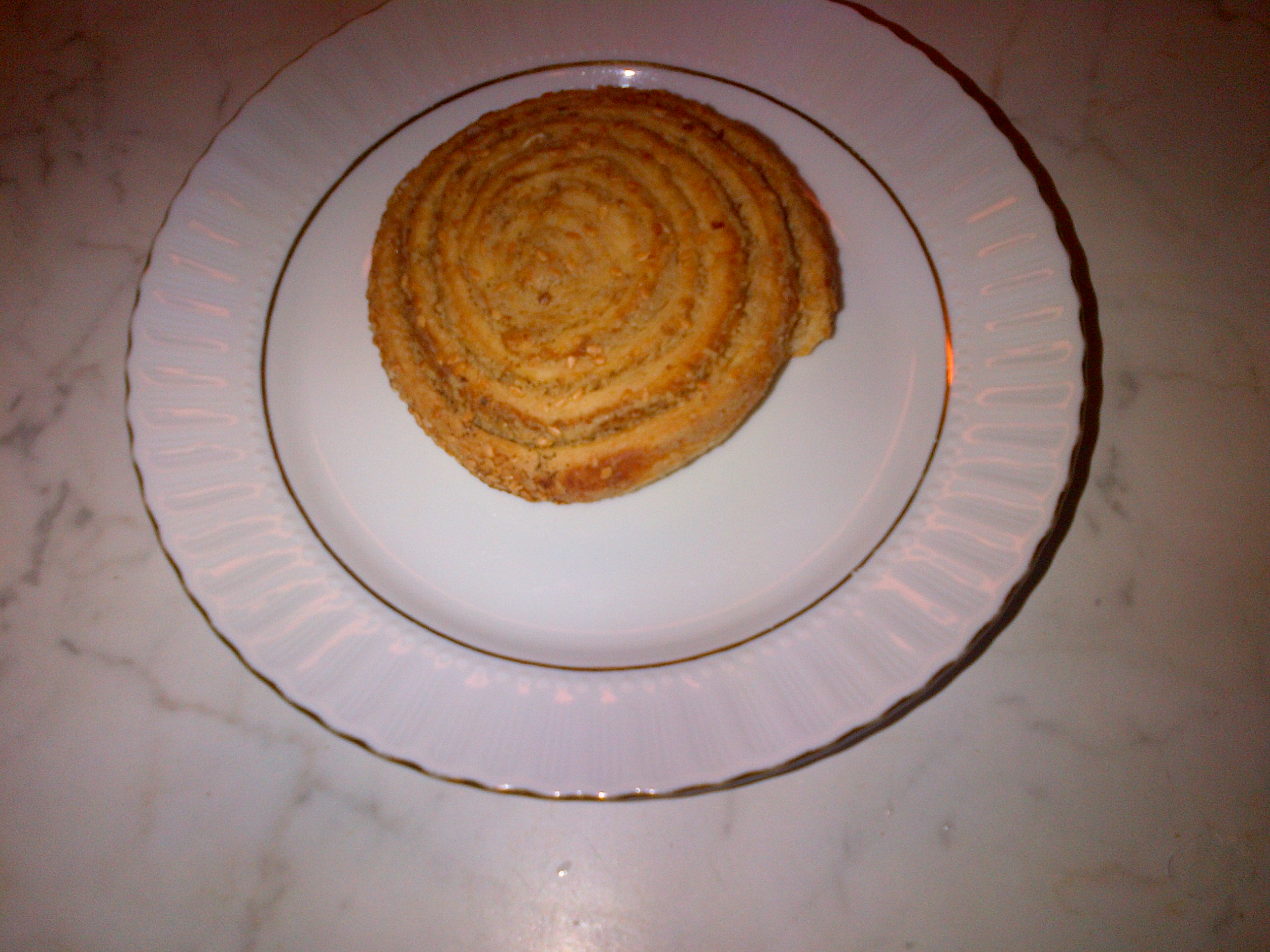 A small çörek from Turkey.